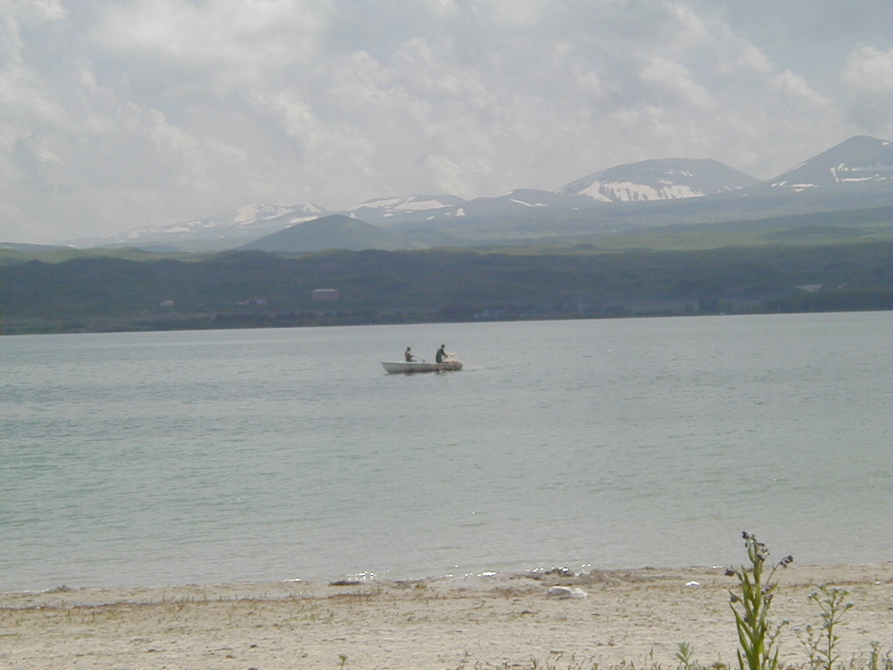 Laying fishing nets in Sevan, Armenia